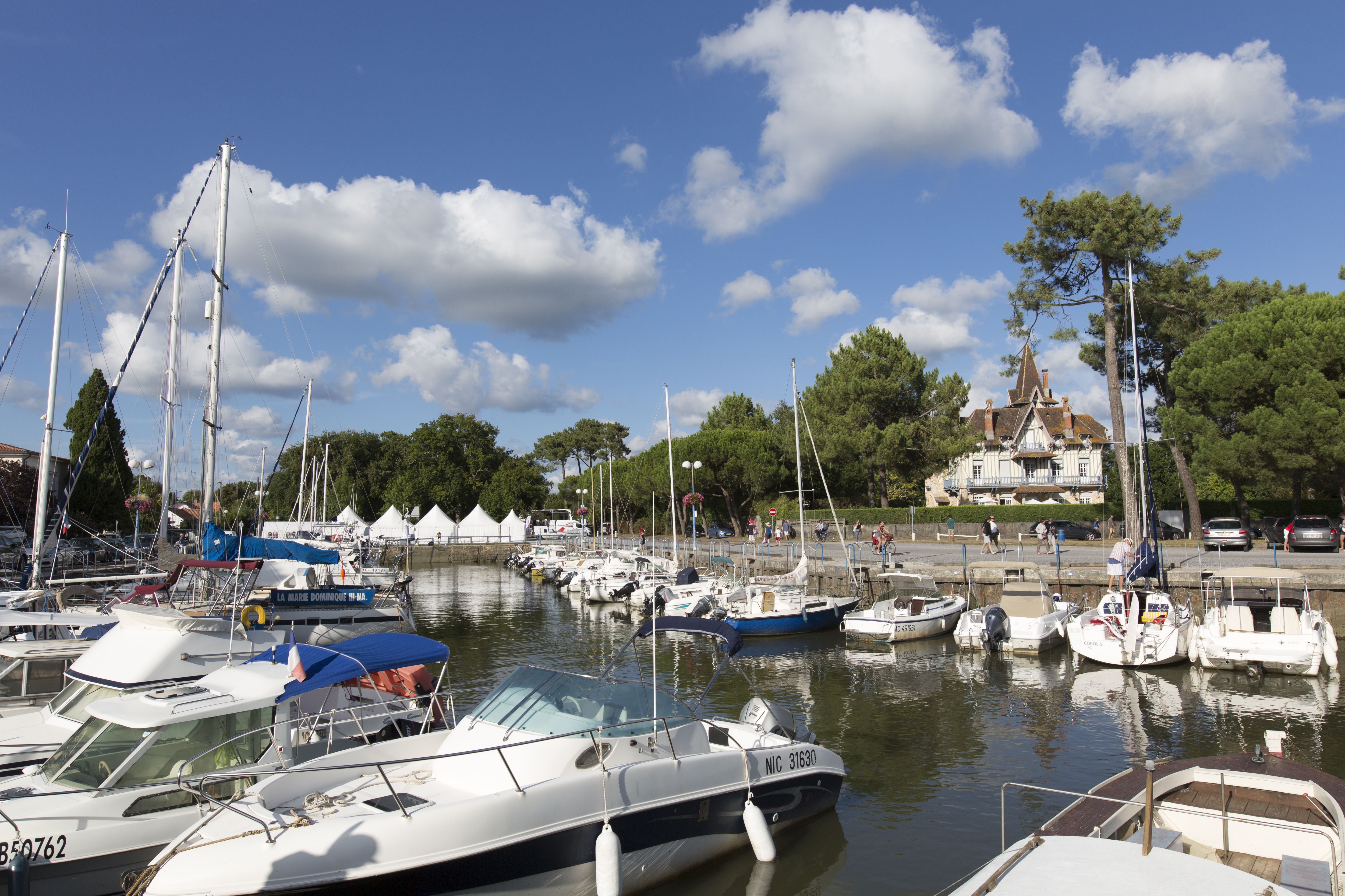 Port du Bétey